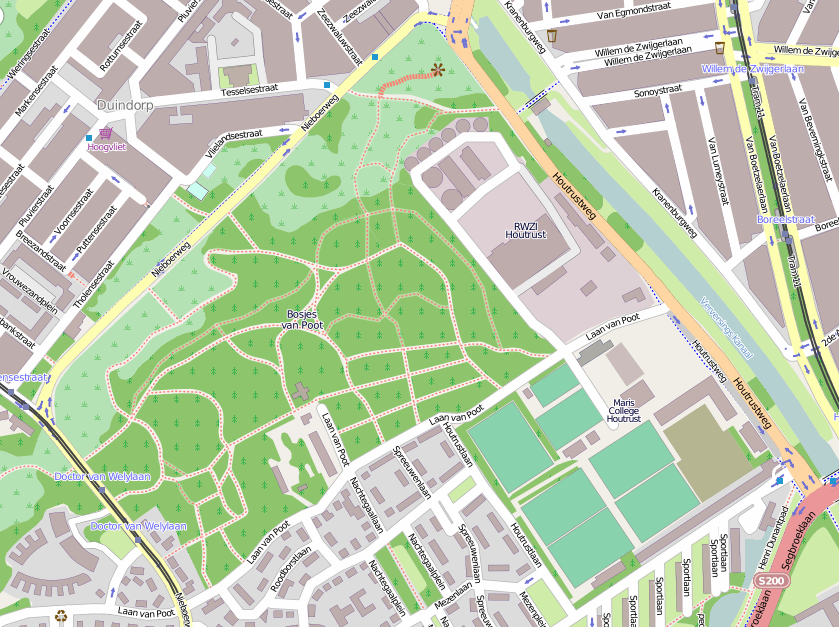 location Houtrustterrein